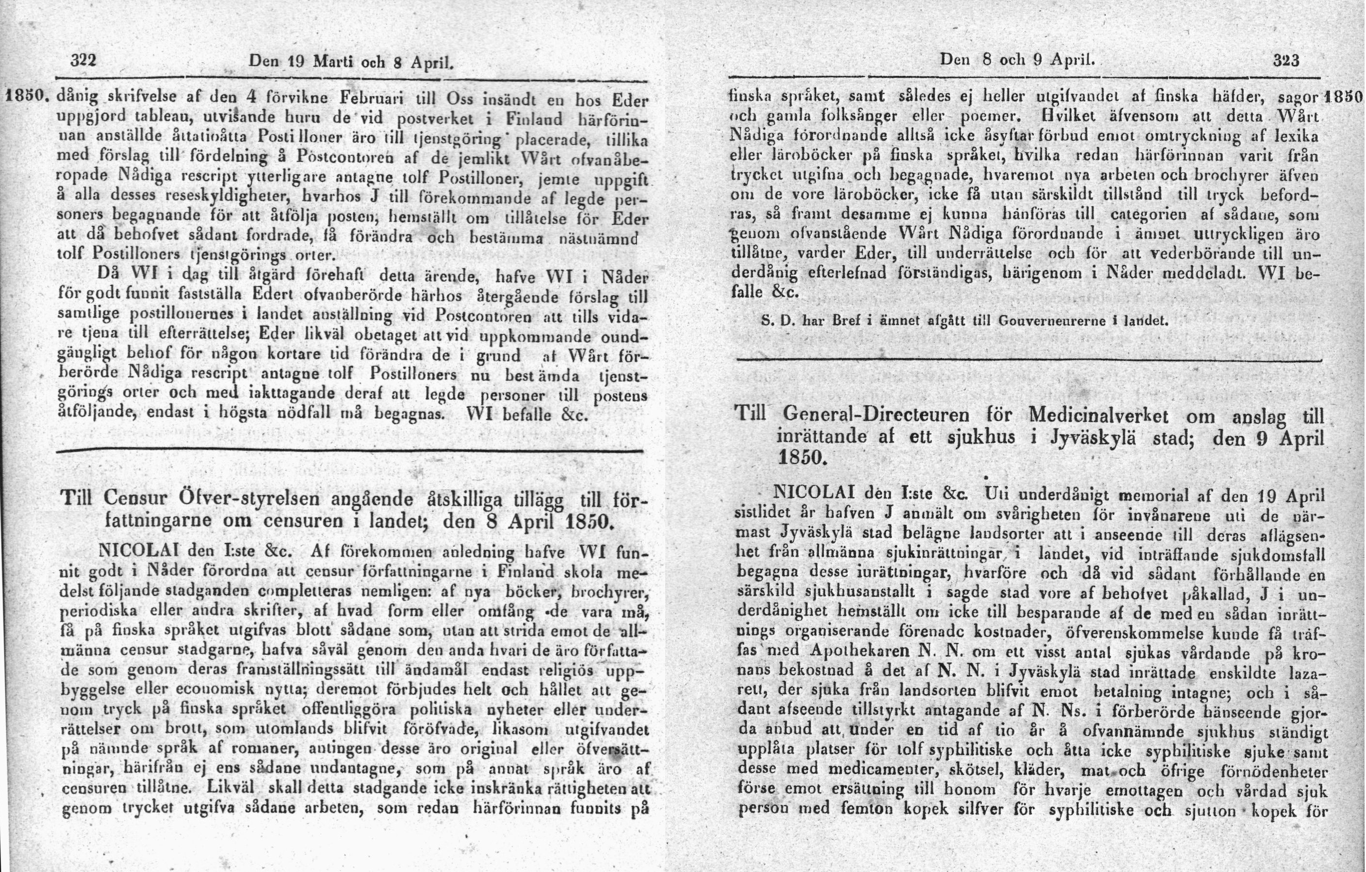 The text of the so-called Language or Censorship Act, issued on 8 April 1850 in Grand Duchy of Finland. The Act was given only in Swedish language.